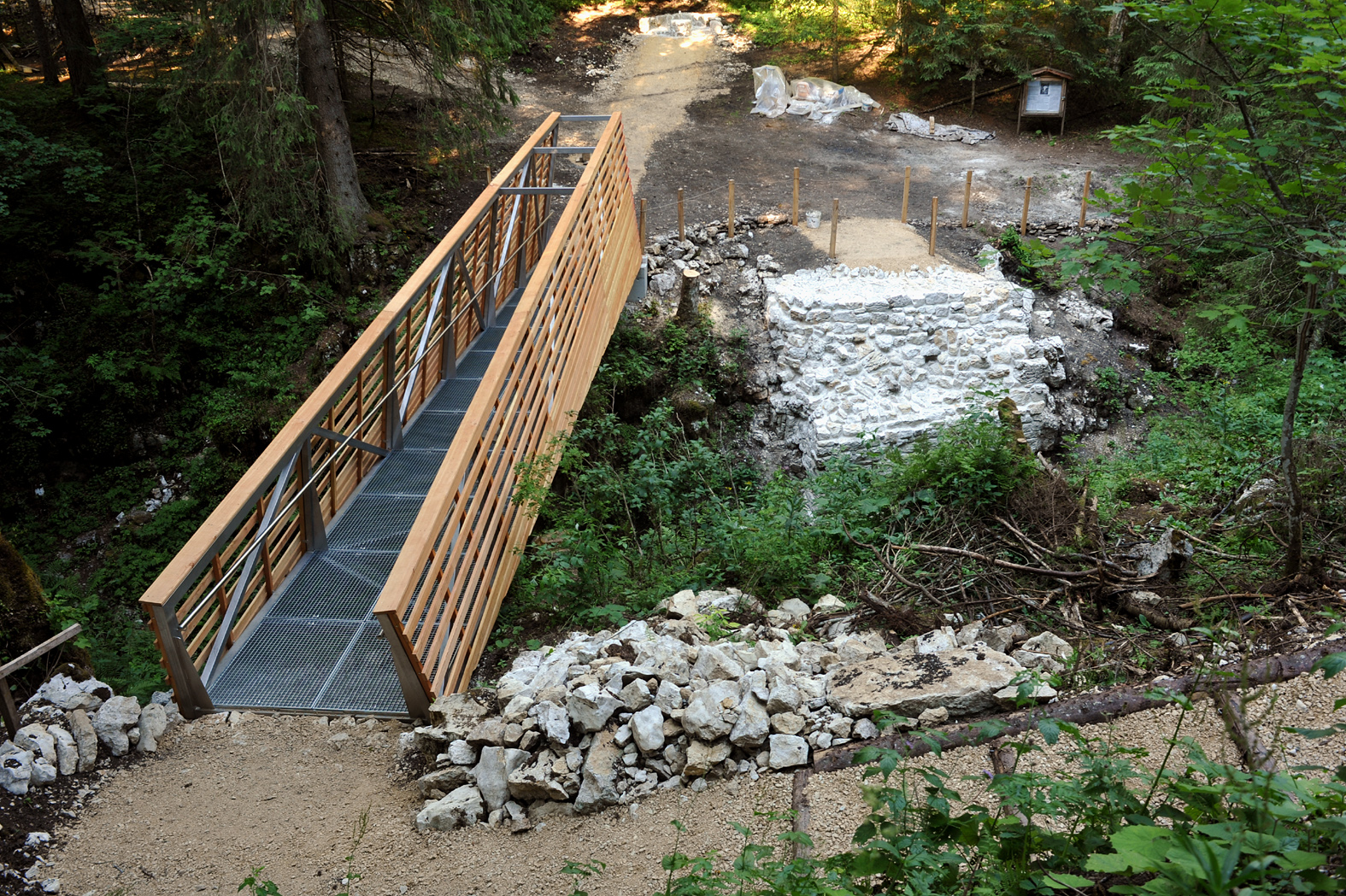 Anabaptist bridge crossing the Combe du Bez above Corgémont; Berne, Switzerland. Inserting the new pedestrian bridge.